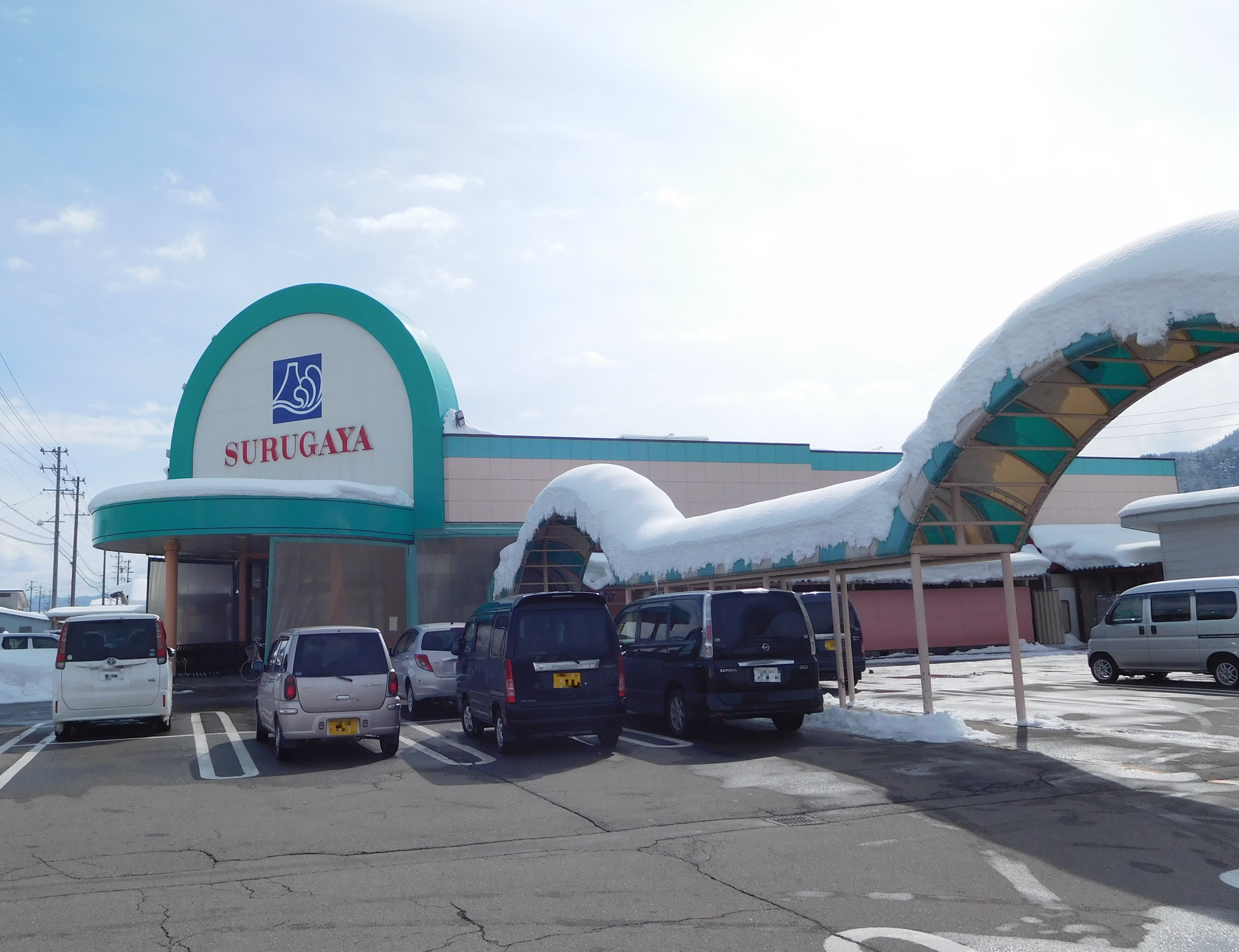 This is Surugaya Furukawa Shop, which is a supermarket in Hida, Gifu, Japan.